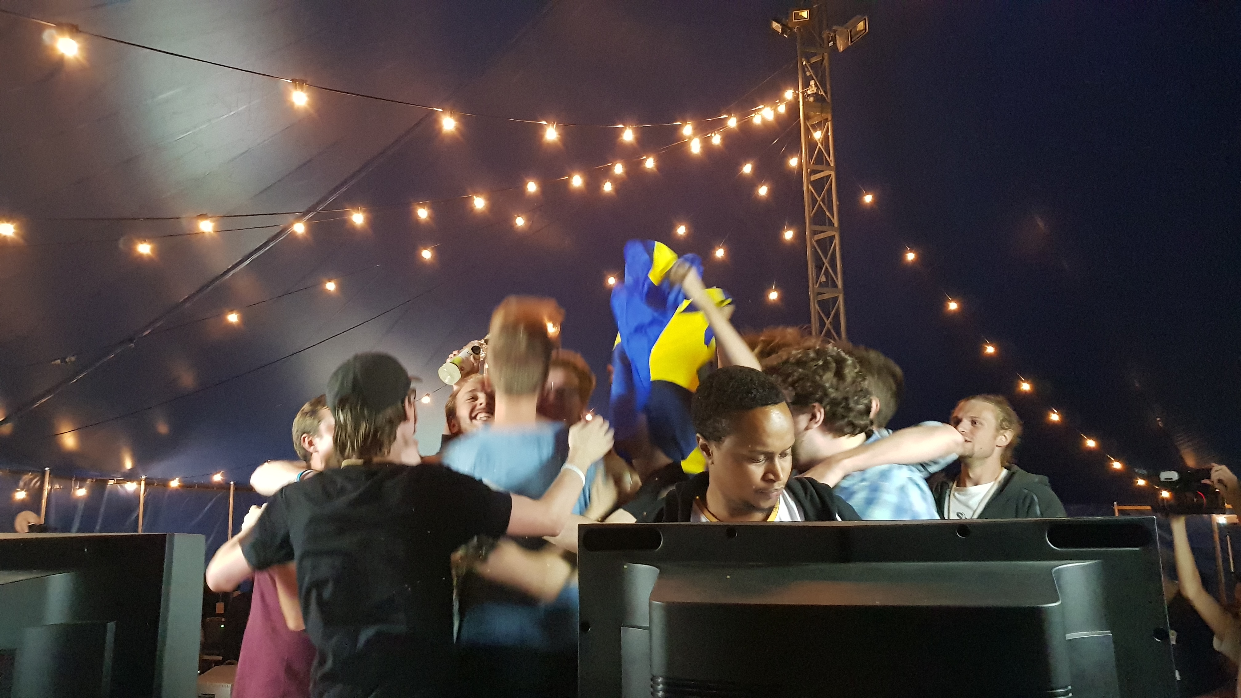 At the Heir 5 Super Smash Bros. Melee tournament, Swedish player Daydee surrounded by the Swedish crowd after beating British Professor Pro, who is unplugging his controller.